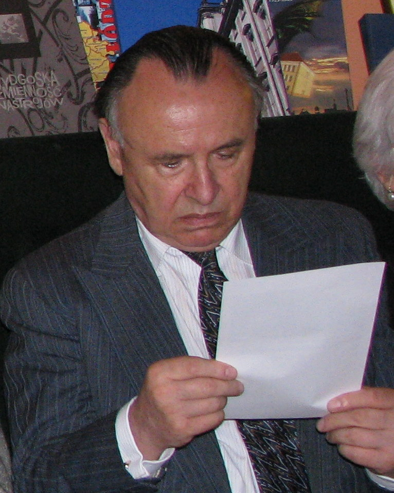 Andrzej Biernacki (b. September 13, 1931 in Imielno, Poland) – Polish journalist, essayist, literary critic and editor. He lives in Warsaw, Poland